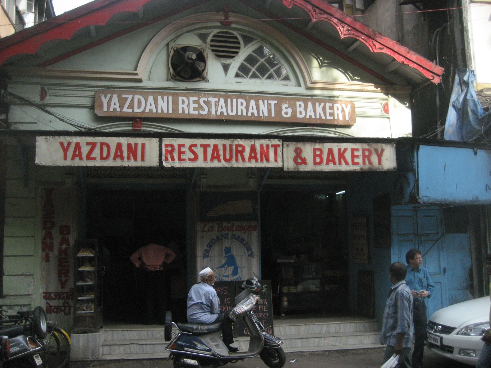 Another awesome place that Akshay introduced me to. I am fairly certain that Yazdani Bakery manufactures THE BEST oatmeal cookies I have ever eaten in my entire life. They also make some amazing chai. This place is located between The Bombay Store and Dalal Street. I am terrible with directions and don't know the exact street name.